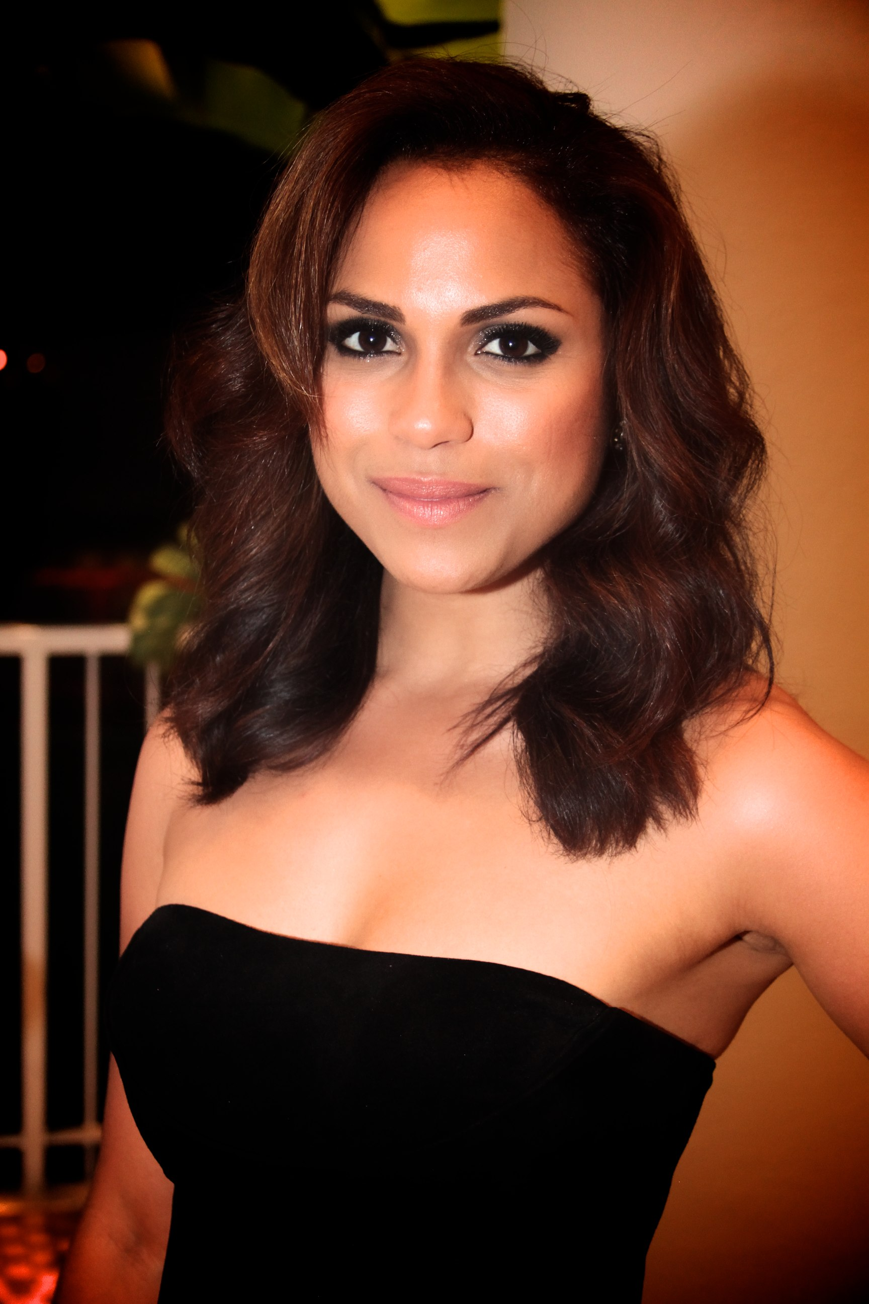 2013 Imagen Foundation Awards, Monica Raymund